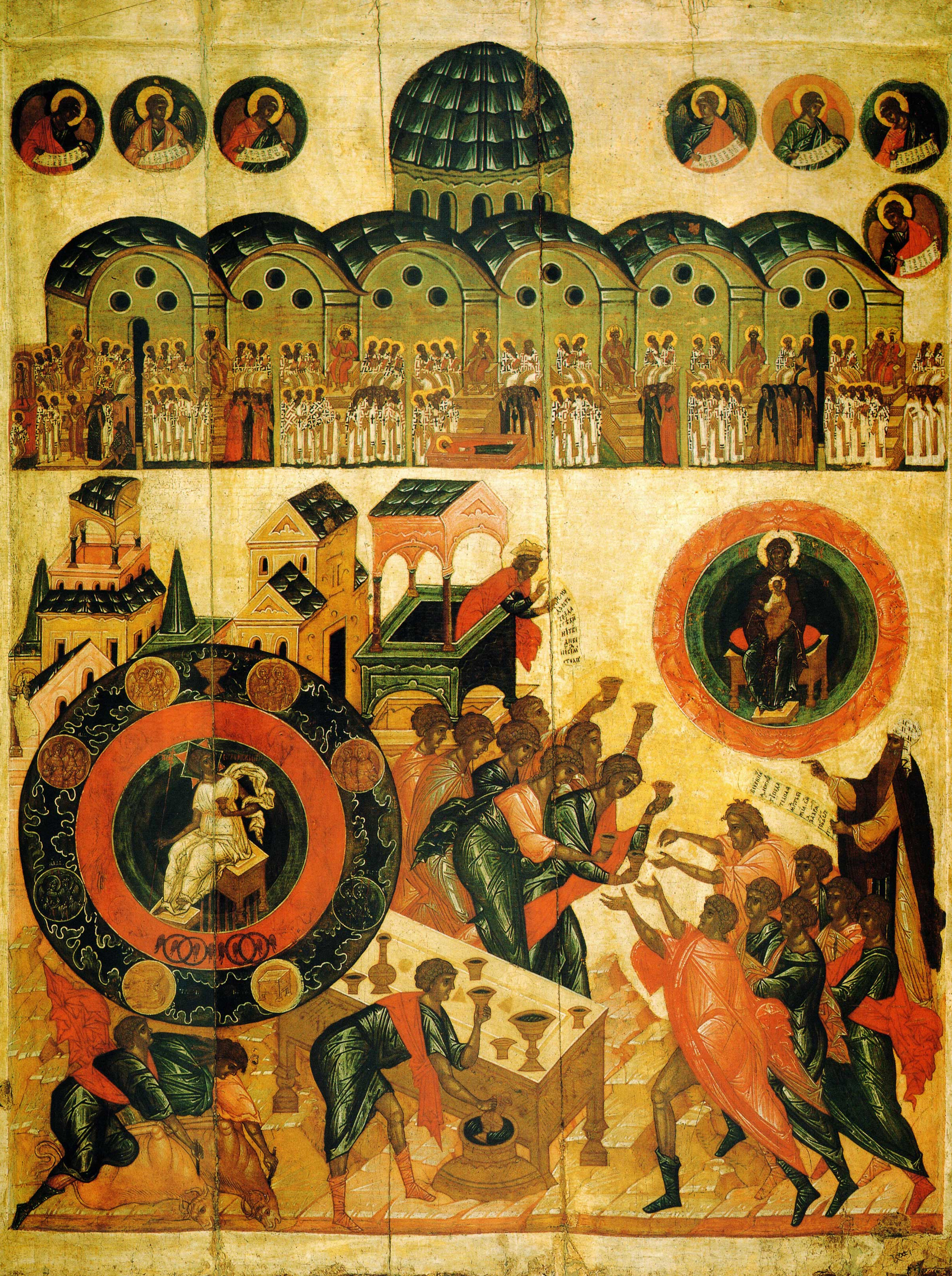 "Wisdom hath builded her house" (Премудрость созда Себе дом), Novgorod (1548). The title of this type of icon is from Proverbs 9:1 and refers to the identification of Christ the Logos with Divine Wisdom (Hagia Sophia). The highly allegoric composition is centered on the "Feast of Wisdom" of Ephesians 3:8-12 The image of the "Power and Wisdom of GOD" on the throne is surrounded by the ranks of the heavenly hierarchy. The Theotokos sits on a throne with Christ Immanuel. Divine Wisdom is depicted in the depths of "divine darkness", dressed in white clothes, sitting on a golden throne with a bowl in her left hand and a sceptre/staff in her right. Her halo is formed from red and green rhombuses. Her throne is supported by seven pillars (Proverbs 9:1) and she is surrounded by the "first order of celestial entities" (De Coelesti Hierarchia 7:4) King Solomon is shown as the "servant of Wisdom", coming from the "hills of the City" to the Theotokos with Immanuel (Proverbs 9:3). An early icon of the "Wisdom has builded her house" type is a 14th-century fresco in the Church of the Assumption in Volotovo Field, Veliky Novgorod.[1] This icon has some parallels with the Volotovo fresco, including the diagonal table and the shape of the temple, the slaughter of two calves, King Solomon approaching with an unrolled scroll, and the figure of hymnographer Kozma Maiumsky.